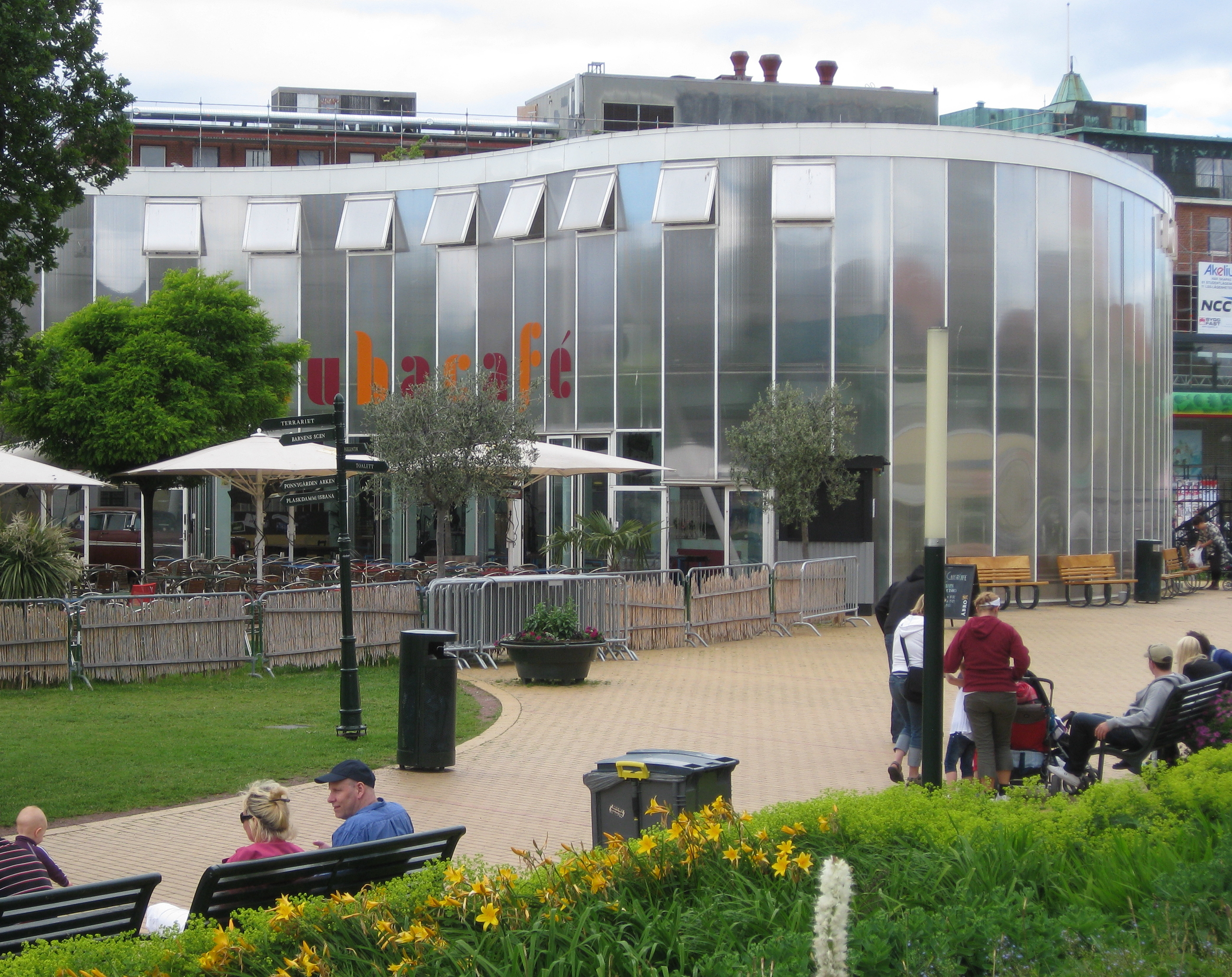 Cuba Café in Folkets Park, Malmö, Sweden.